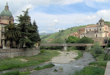 The Busento River, as seen in Cosenza's historical centre.